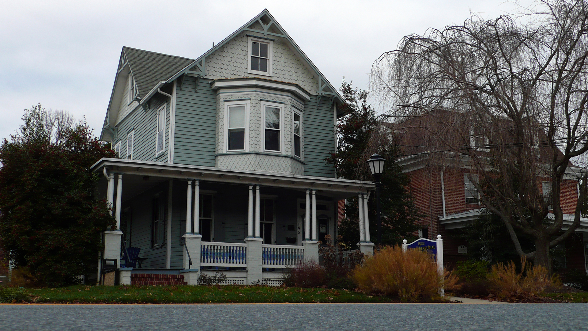 The Chambers House on College Avenue in Newark, Delaware. (Note: there is another Chambers House in the area.)